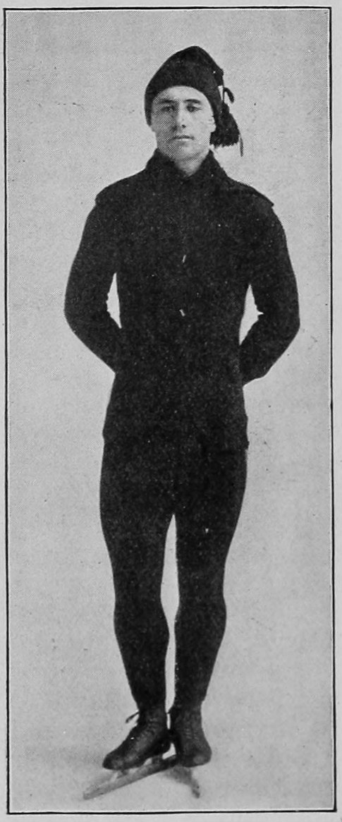 Canadian speed skater and multi-athlete Jack McCulloch.